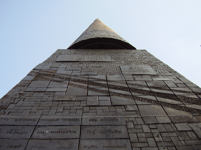 14 October 1973 Memorial, Ratchadamnern road, Bangkok, Thailand